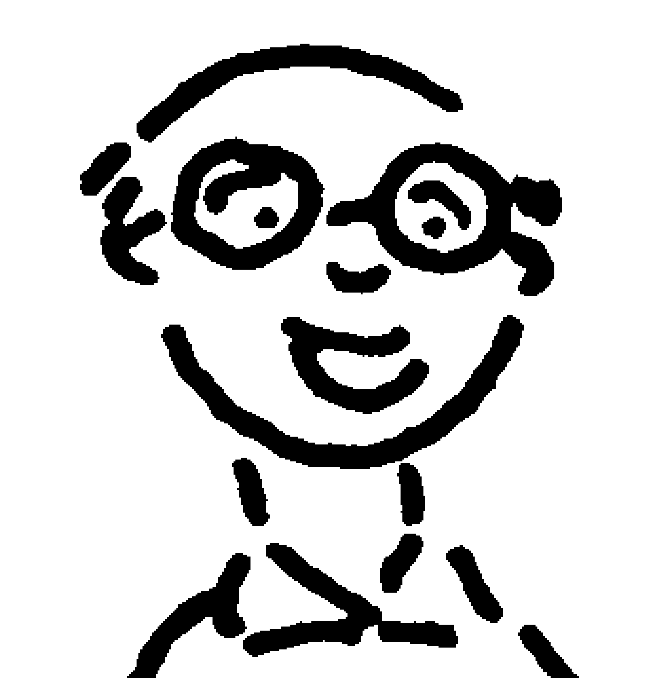 self-portrait of Ed Subitzky, drawn by Ed Subitzky in 1992 (using a technical pen on paper).